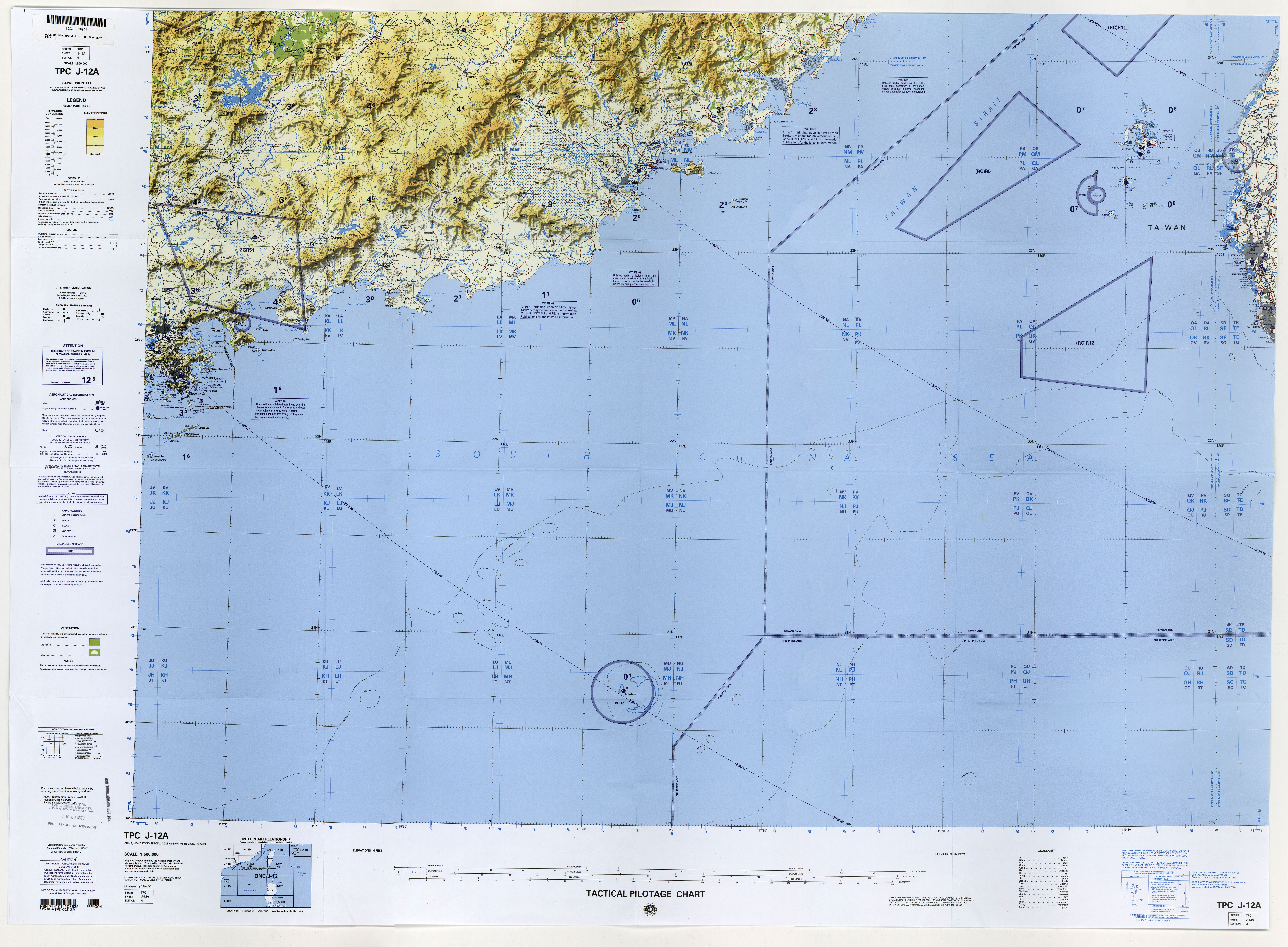 Tactical Pilotage Chart Series - World 1:500,000 Scale